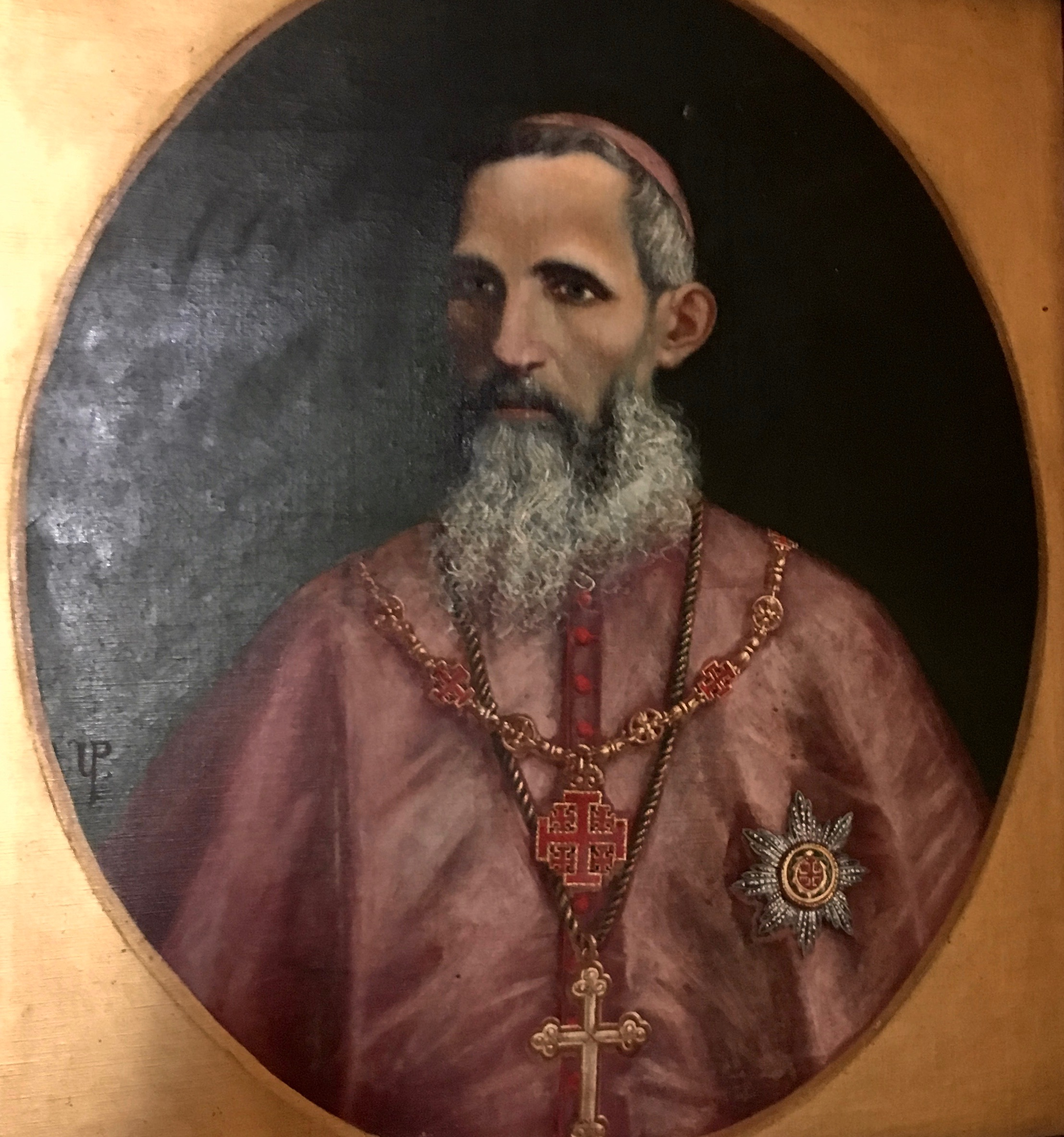 Portrait Vincenzo Bracco (Latin Patriarchate of Jerusalem)